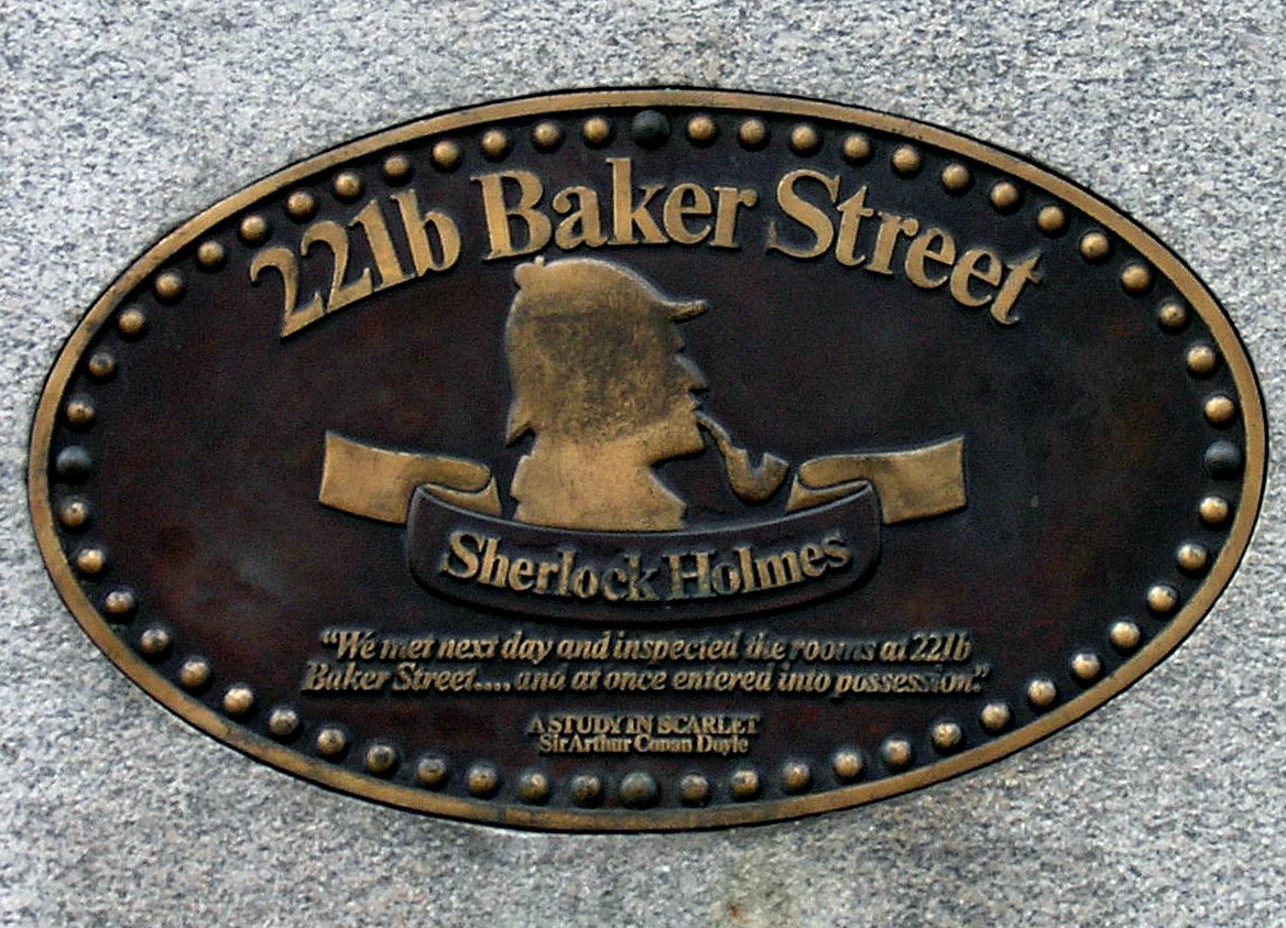 This marks 221b Baker St., the residence of Serlock Holmes. (Trafalgar Sq., Holmes Museum, Hyde Park)